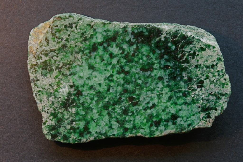 Jadeite (Size 50 mm x 30 mm x 10 mm) Locality: Tawmaw (Tawhmaw; Taw Maw), Hpakant-Tawmaw Jade Tract, Hpakant Township (Hpakan; Phakant; Phakan), Mohnyin District (Moe Hnyin District), Kachin State, Burma (Myanmar)